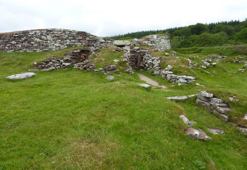 Carn Liath, a broch in Sutherland, Scotland